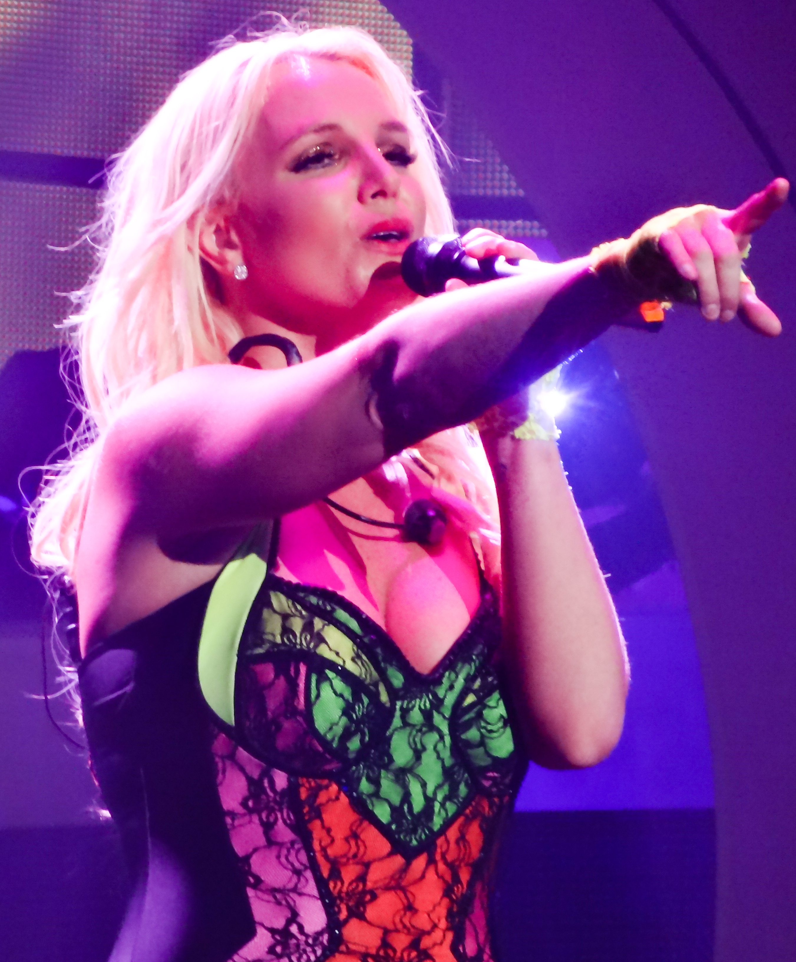 Perfume